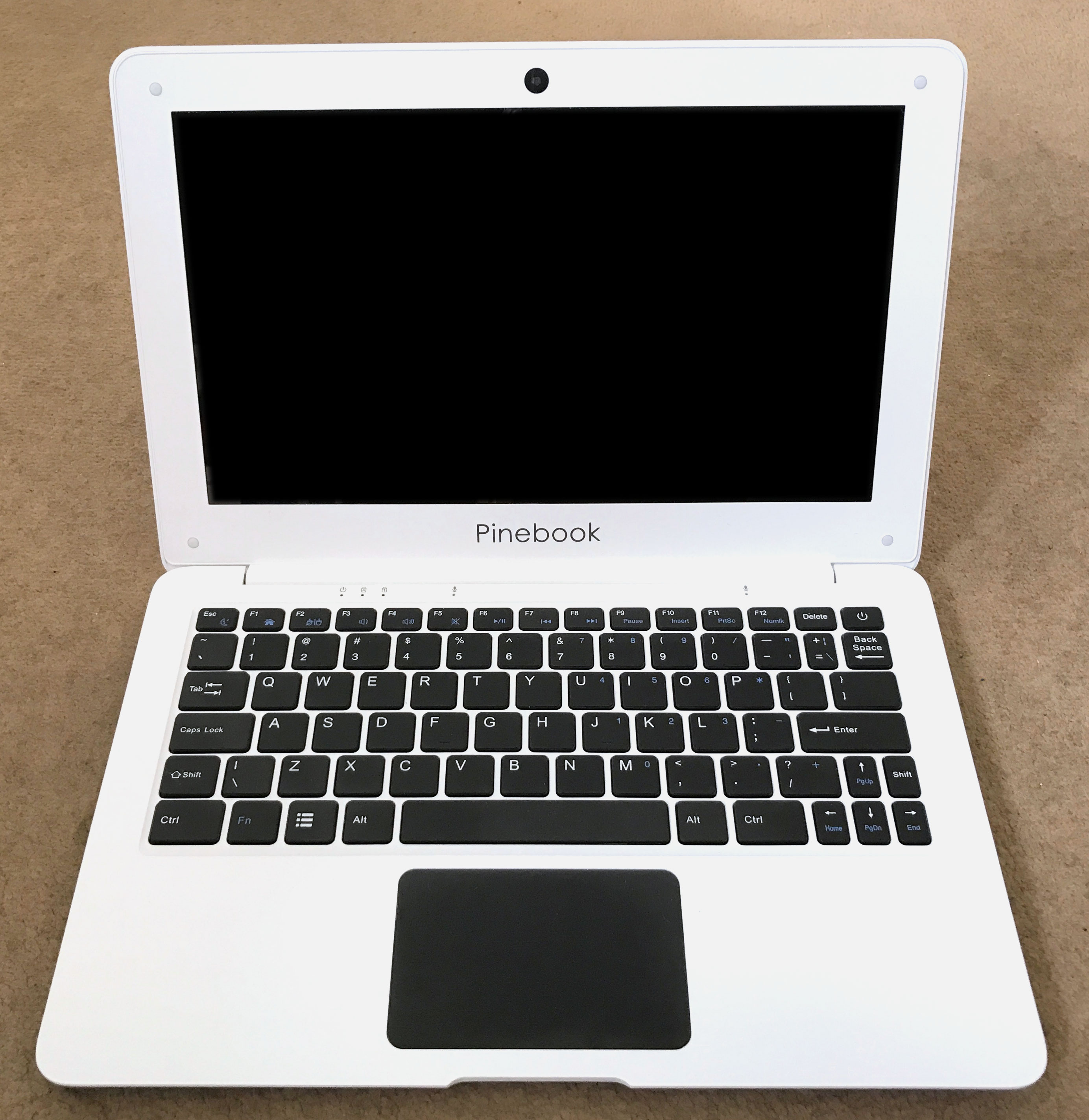 Pinebook 11 Inch